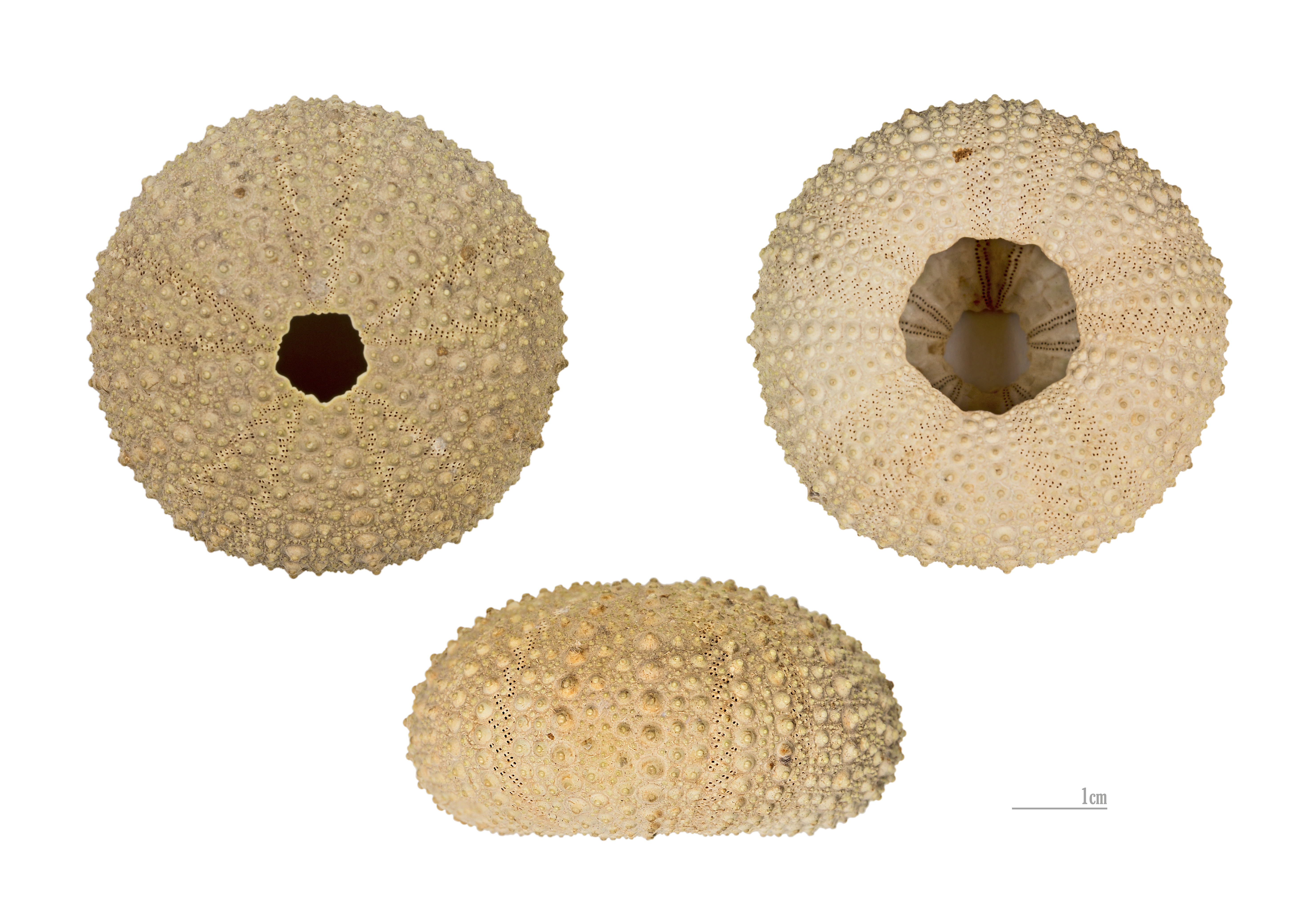 Violet Sea Urchin, test.